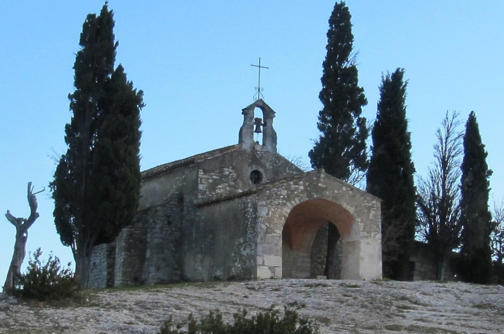 Chapel Sainte Sixte, bell gable with bell. F-13810 Eygalières (Bouches-du-Rhône), France.